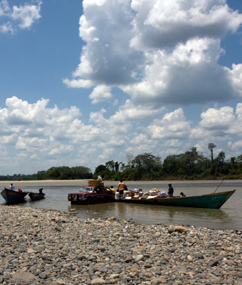 Crossing Rio Inambari - Puerto Carlos.